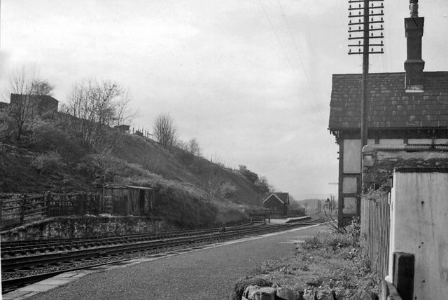 Bell Busk Station. View NW, towards Hellifield and Carlisle; ex-Midland Leeds/Bradford - Skipton - Hellifield - Carlisle main line. Station closed 4/5/59 - but still very much intact two years later; note staggered platforms.